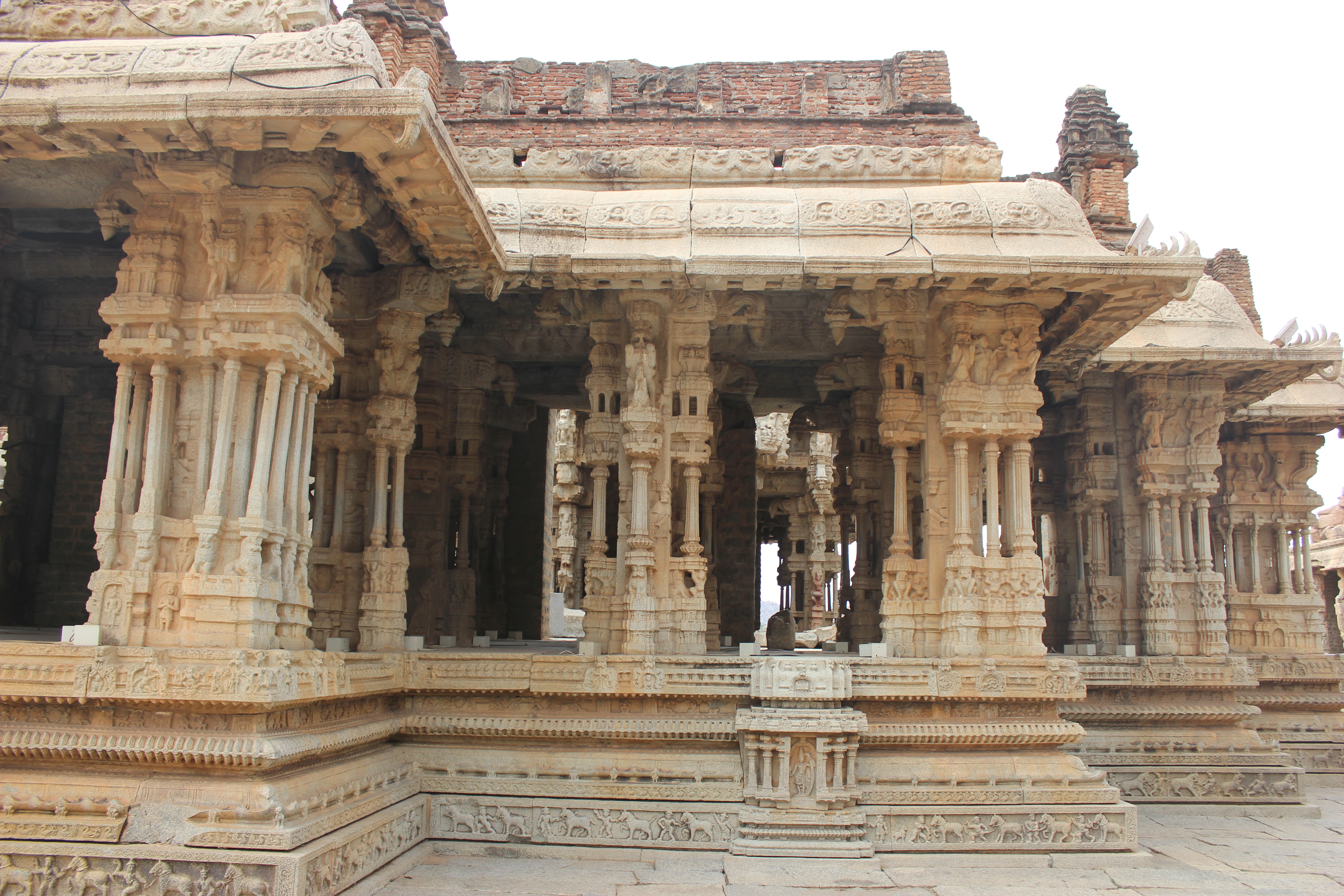 This photograph was taken by me at the Vitthala temple complex in Hampi, a UNESCO world heritage site in the Bellary district, Karnataka state, India. The Vitthala temple took about a hundred years to complete. Its construction was started during the rule of Vijayanagara King Deva Raya II (1426-1446 AD) and completed during the reign of King Achyuta Raya (1529-1542 AD)